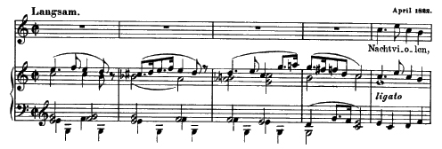 Bars 1-5 from the lied „Dame's violet“ D.752 by Franz SchubertThis music, composed 1821, is in the Public Domain.